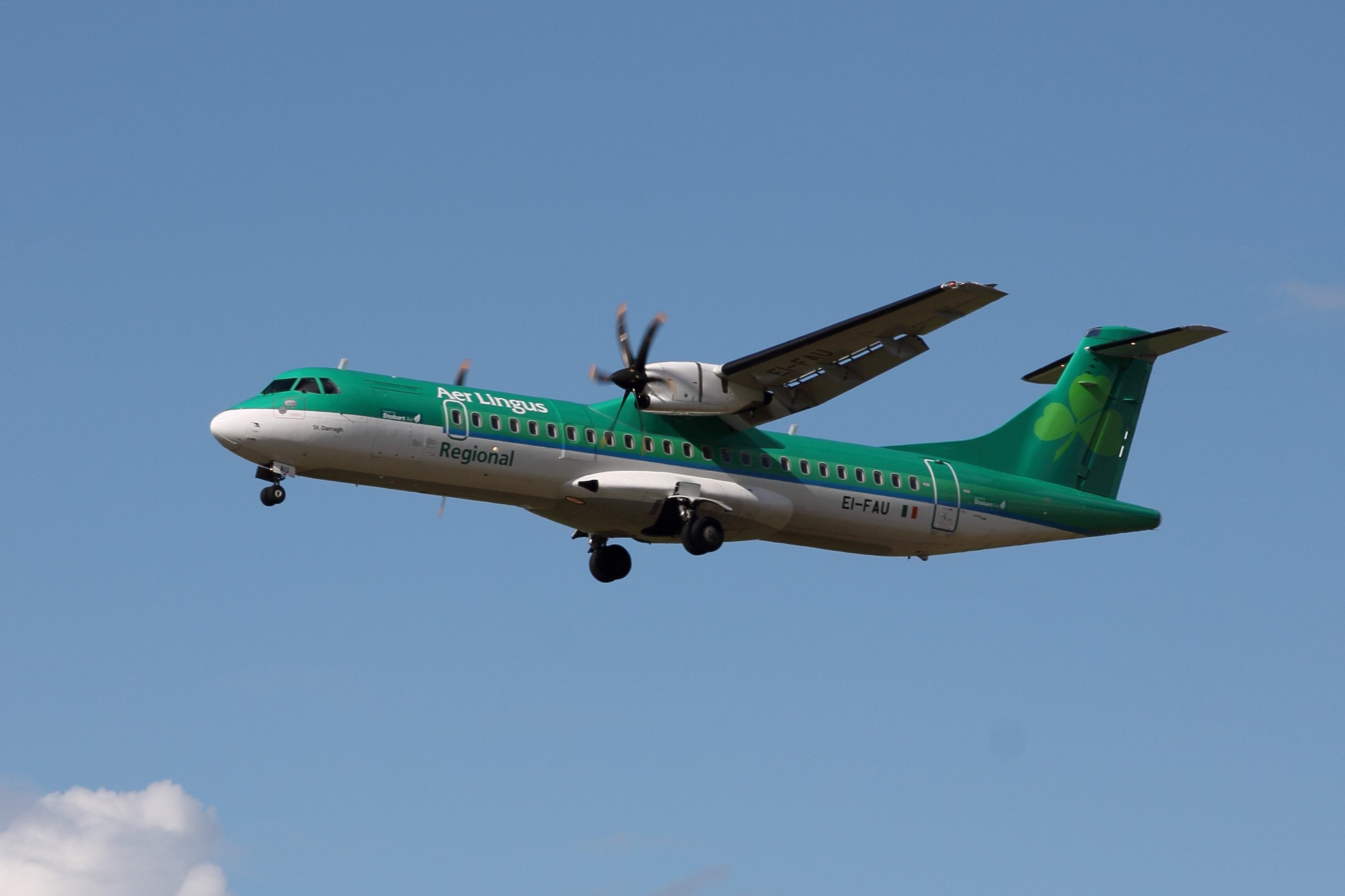 Aer Lingus Regional ATR 72-600 landing at Newcastle Airport.